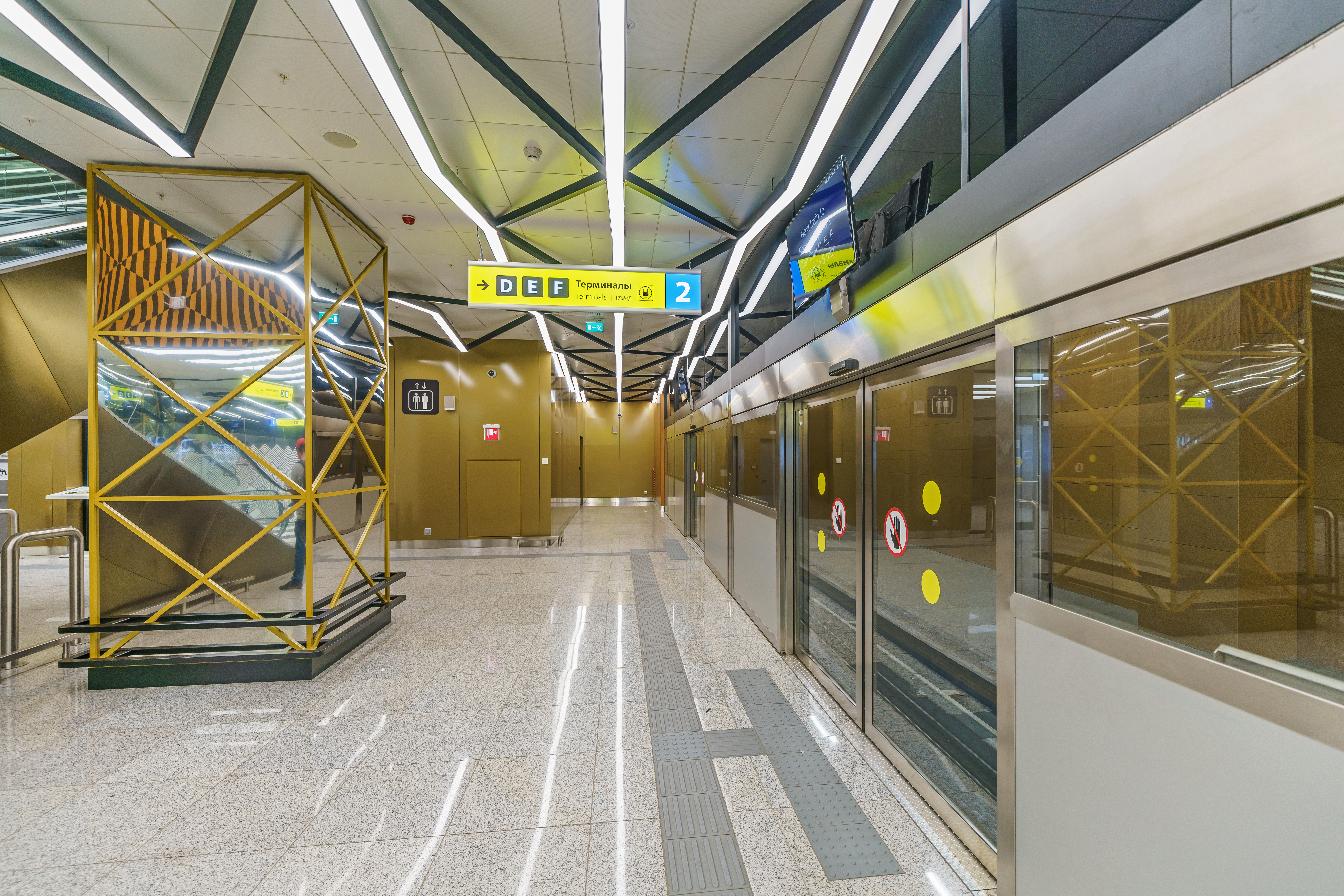 Sheremetyevo-1 station of the cross-terminal underground peoplemover at Sheremetyevo Int. Airport, Moscow Oblast, Russia.